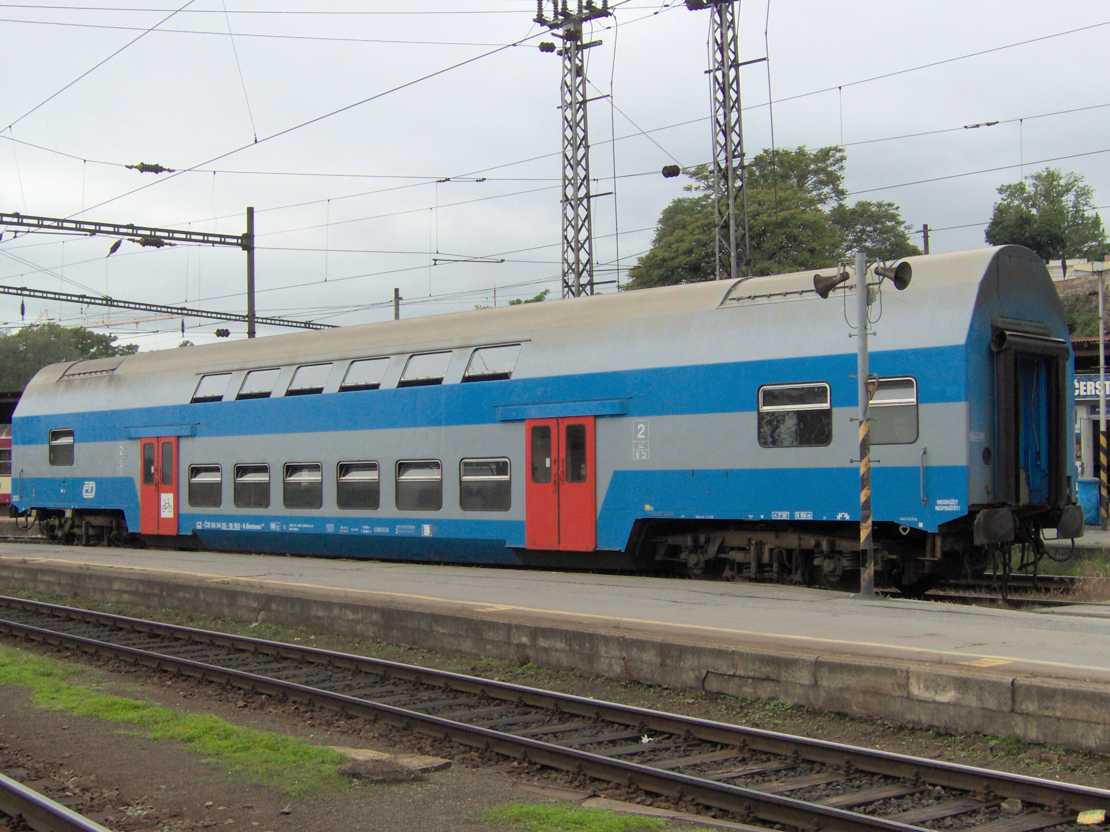 Railway coach 26-18 103 Bmteeo293, Brno main station, Czech Republic